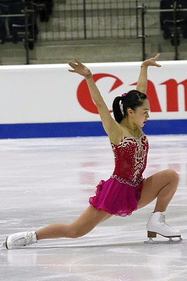 Junior World Championships 2015 (Wakaba HIGUCHI JPN – Bronze Medal)